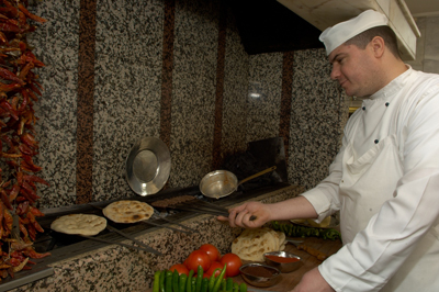 Preparation of Manisa Kebab, a local specialty, in Manisa, Turkey